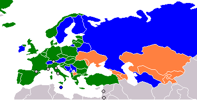 green-NATO, blue-PfP, orange-PfP and PIMS participan states